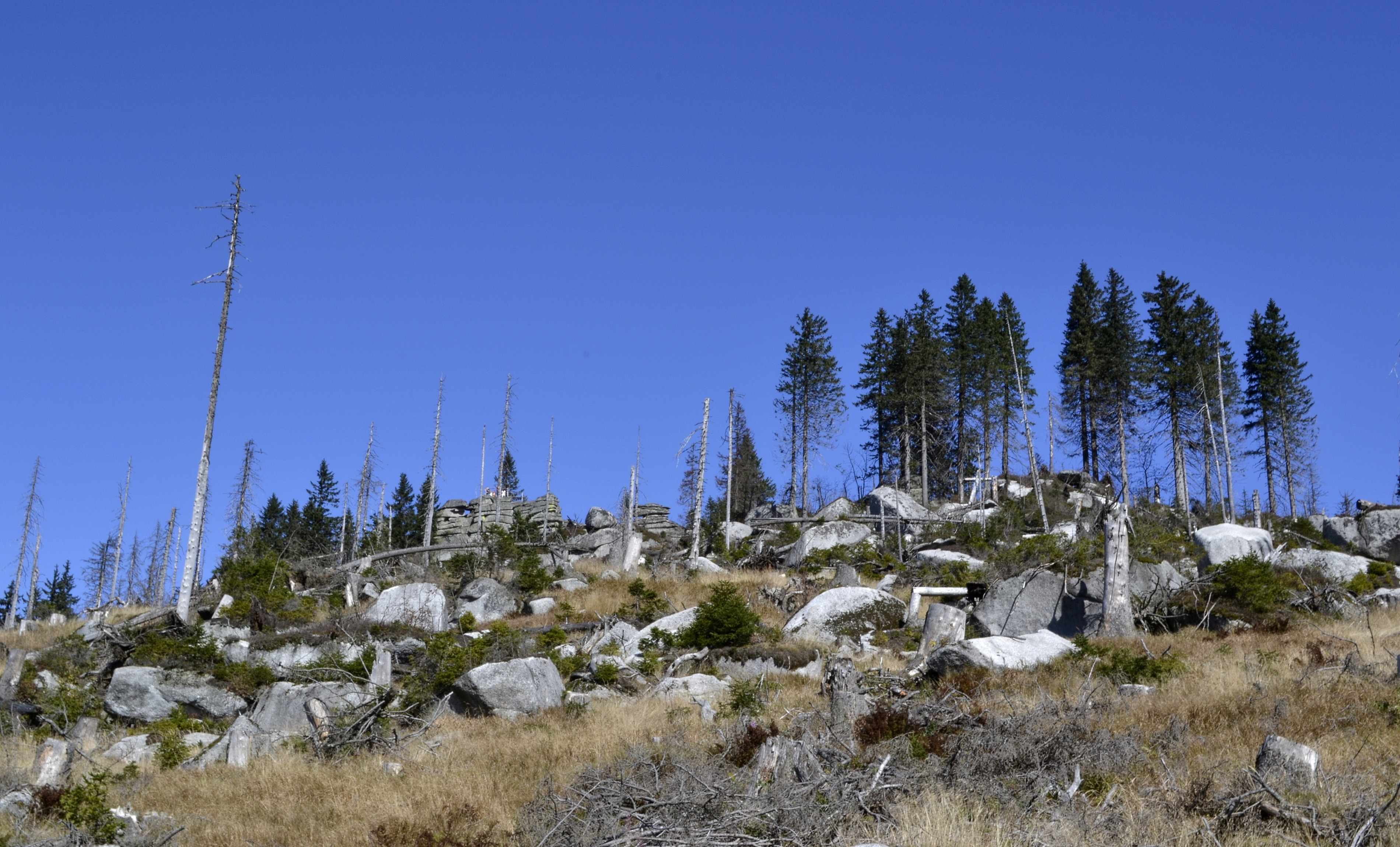 The mountain summit of the Dreisesselberg with its typical peak cliff in the Bavarian Forest.